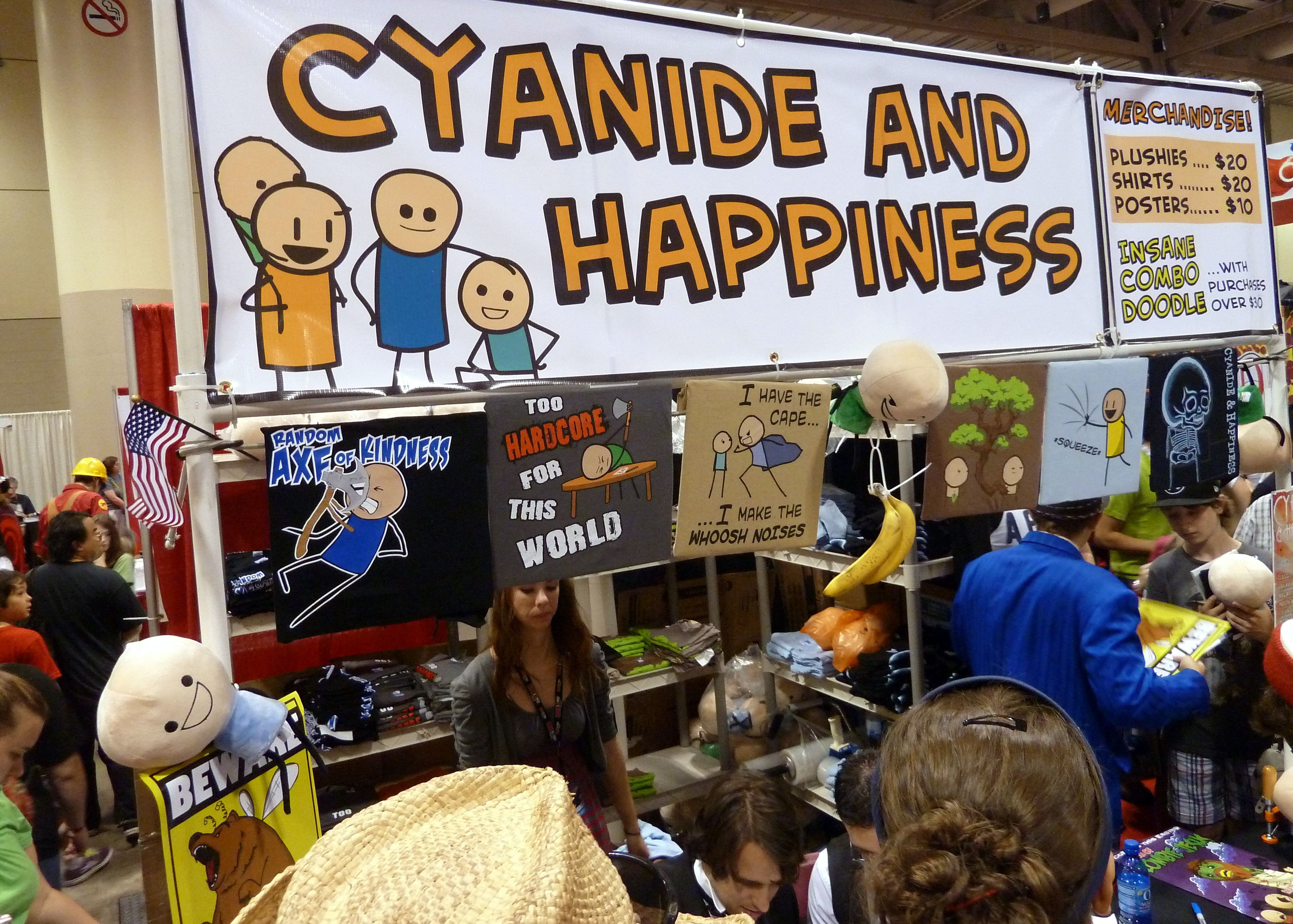 Rob DenBleyker and Shawn Coss, artists of Cyanide and Happiness. Fan Expo Canada in Toronto in 2012.